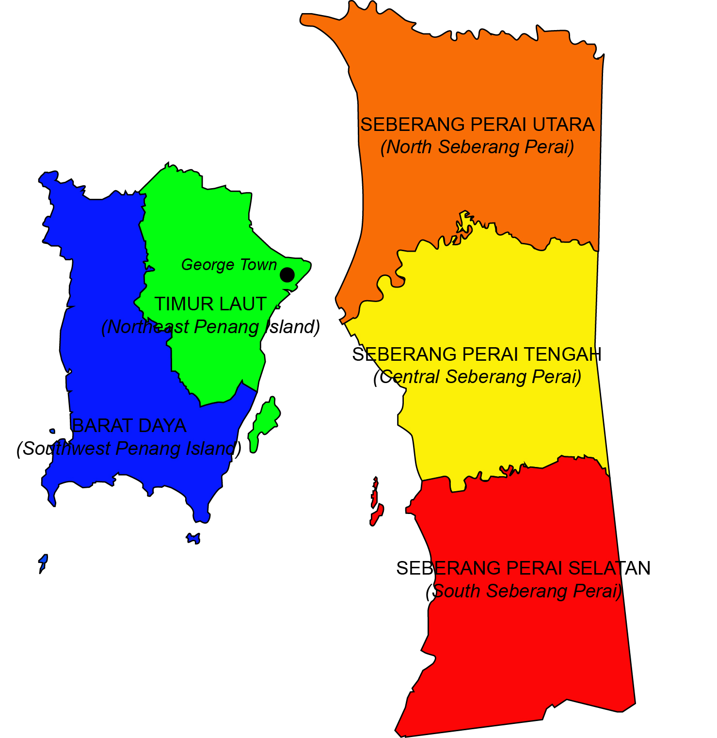 The map shows five districts of the state of Penang in Malaysia.